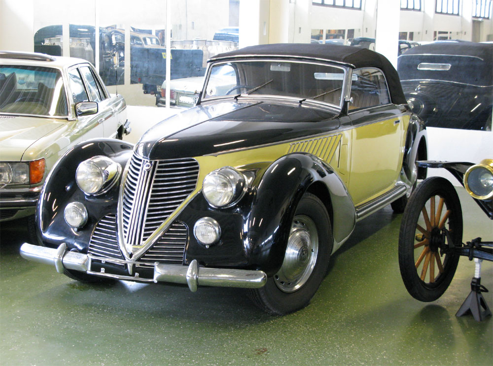 1938 Lancia Astura. Location: Laganland Bilmuseum, Sweden